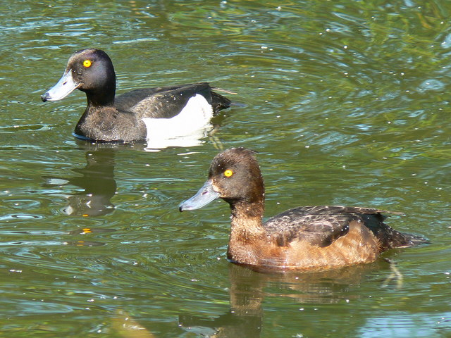 Tufted ducks, Coate Water, Swindon - a closer look. A closer look at the pair of Aythya fuligula. More here